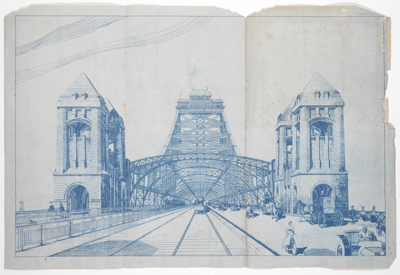 Architectural and Technical Drawings: Competition plans for Sydney Harbour Bridge, first, second and third competitions, 1899-1903 Collection of the State Library of NSW Call Number: PXD 500 Digital Order No.: a974001